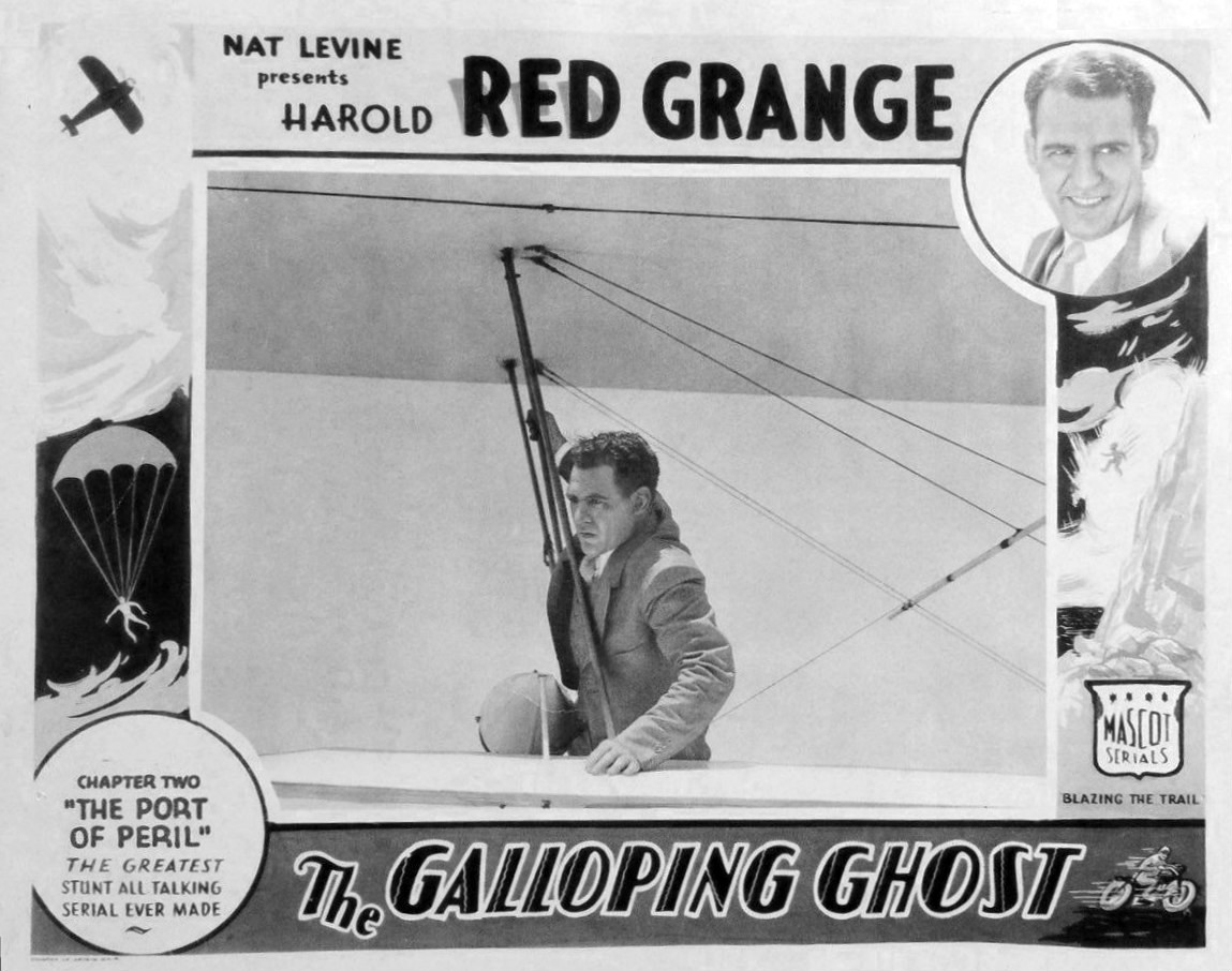 Lobby card for chapter 2 of the American film serial The Galloping Ghost (1931). Football star Red Grange was given this nickname for his performance on the football field. He plays himself in this film.